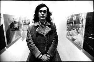 Christo